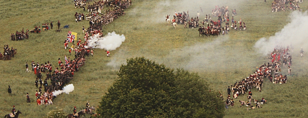 The re-enactment of the battle in Waterloo (1815) Waterloo, Belgium